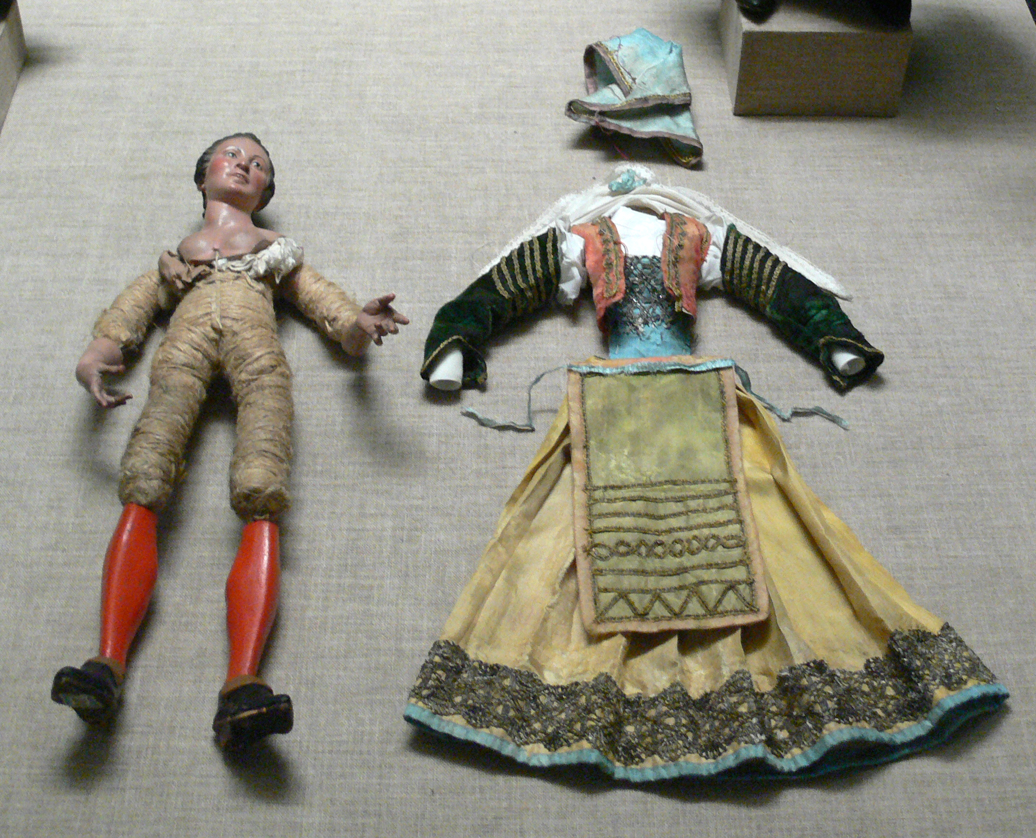 Nativity scene figure from Naples. Krippensammlung des Bayerischen Nationalmuseums (Collection of nativity scenes at the Bavarian National Museum), Munich, Germany.